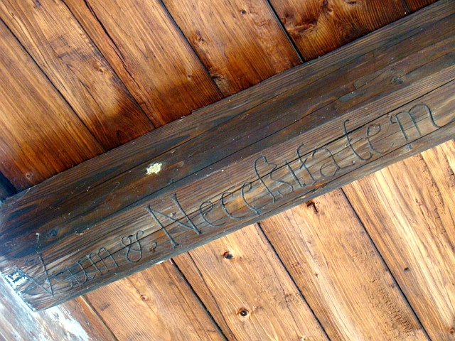 The Inn of the "Under the White Mount" (Skansen in Sanok)